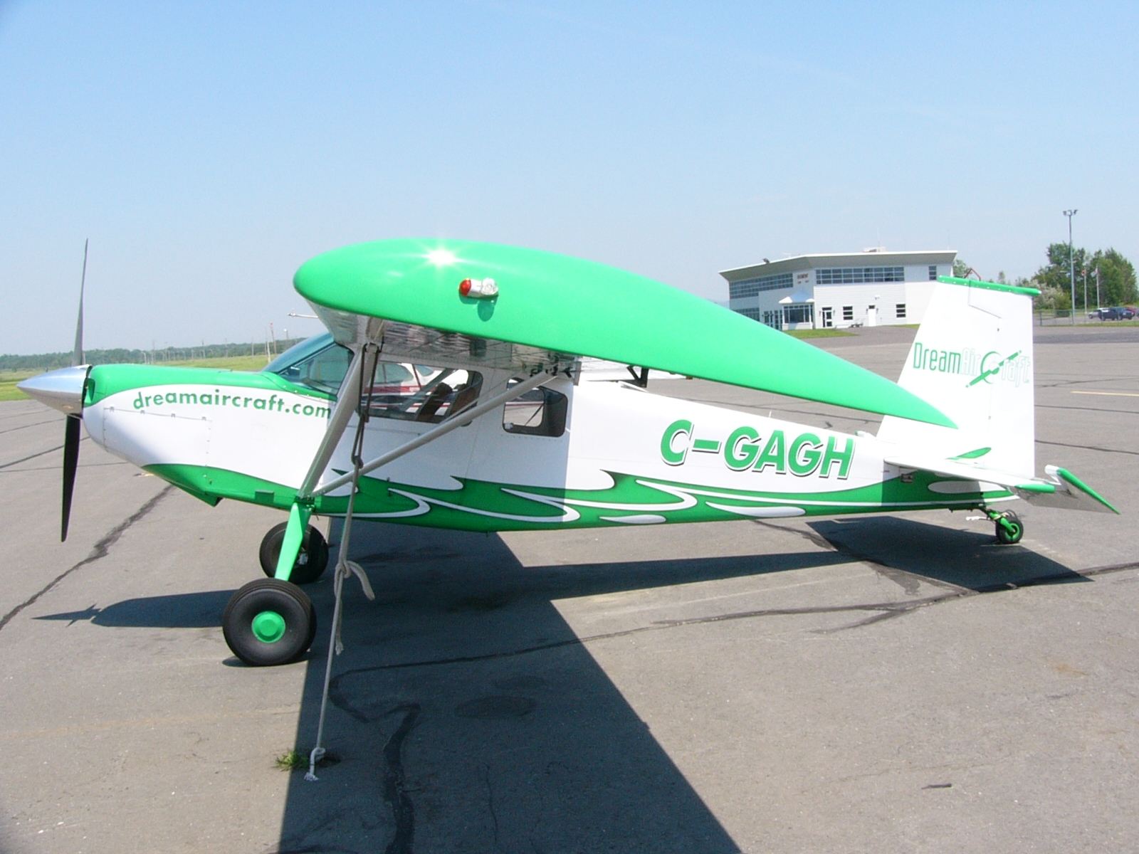 A Dream Tundra 200 at Bromont, Quebec, Canada